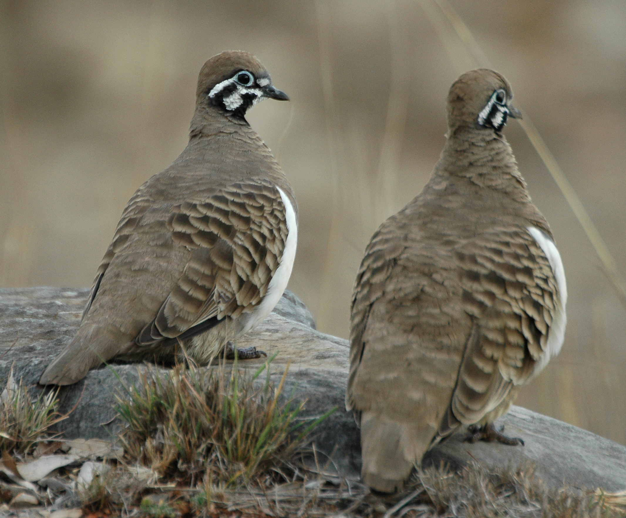 Squatter Pigeon (Geophaps scripta) Cement Mills, Gore, S. Queensland, Australia